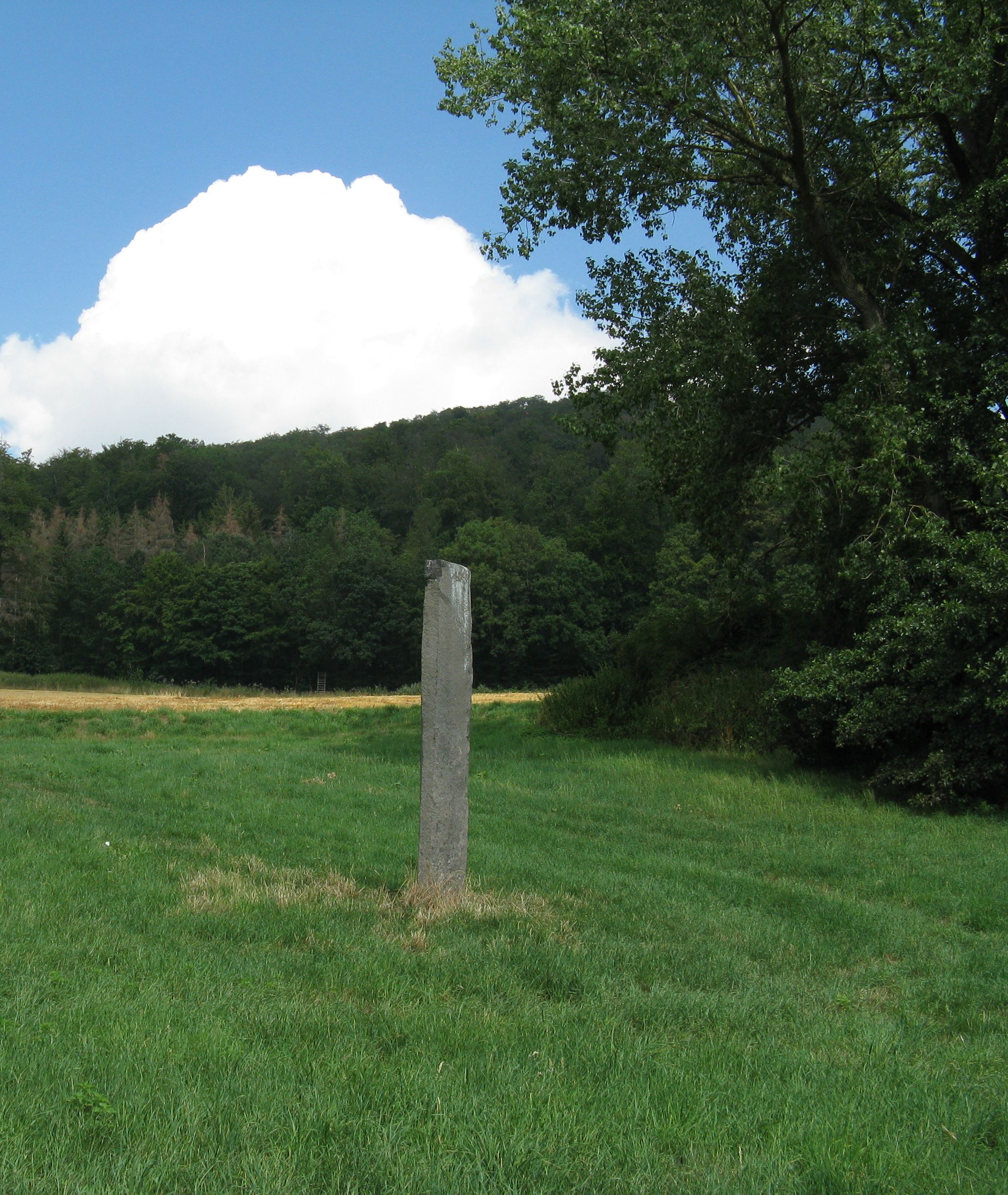 Basalt stele which marks the centre of Germany - determined according to the intersection method. The point is located near Edermünde-Besse in Hessen on the edge of the Langenberge mountains.